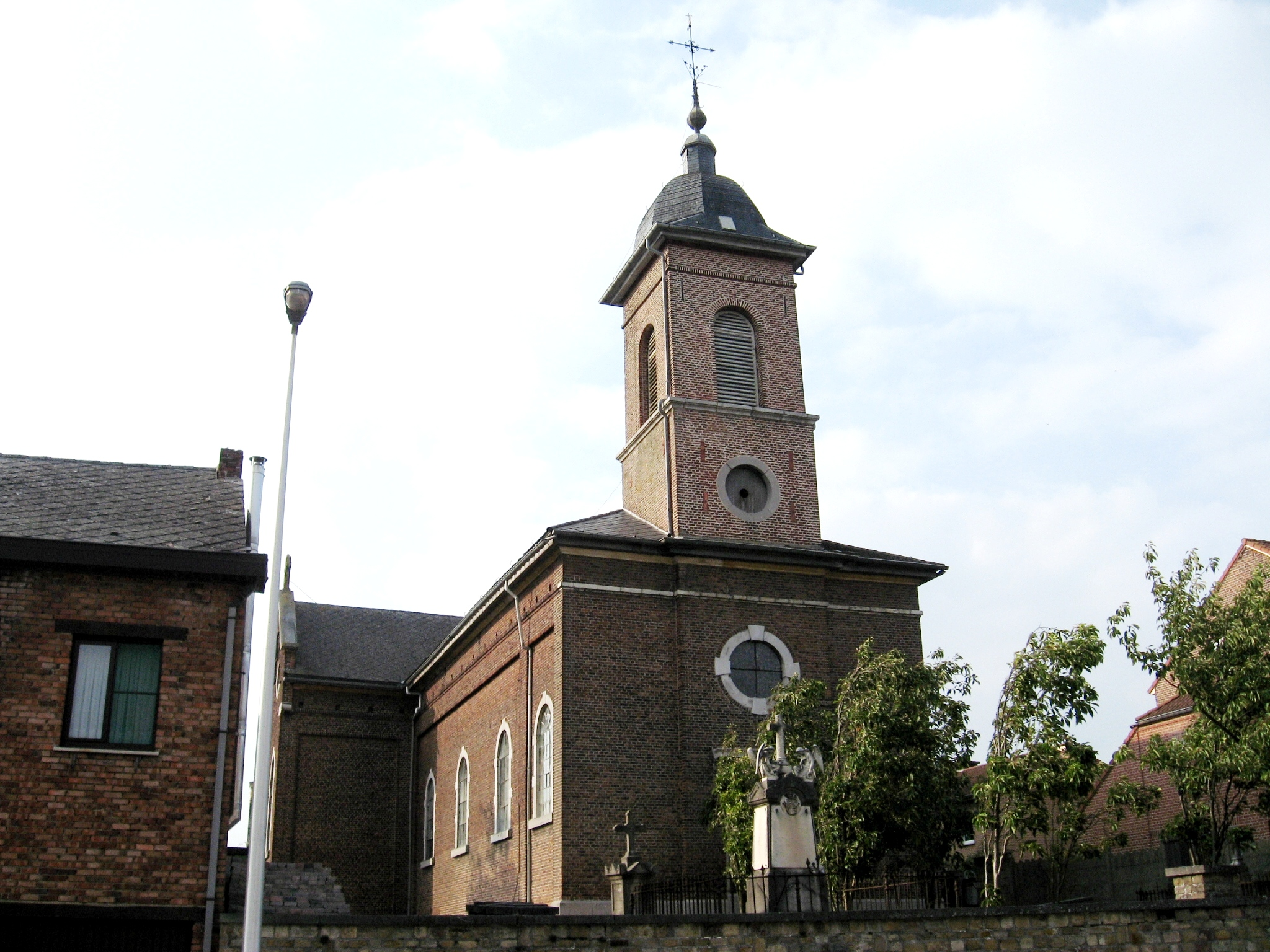 Church of Saint Sebastian in Niel-bij-Sint-Truiden, Gingelom, Limburg, Belgium